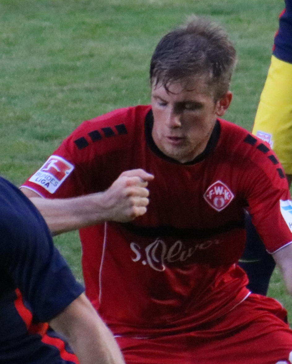 friendly match preseason